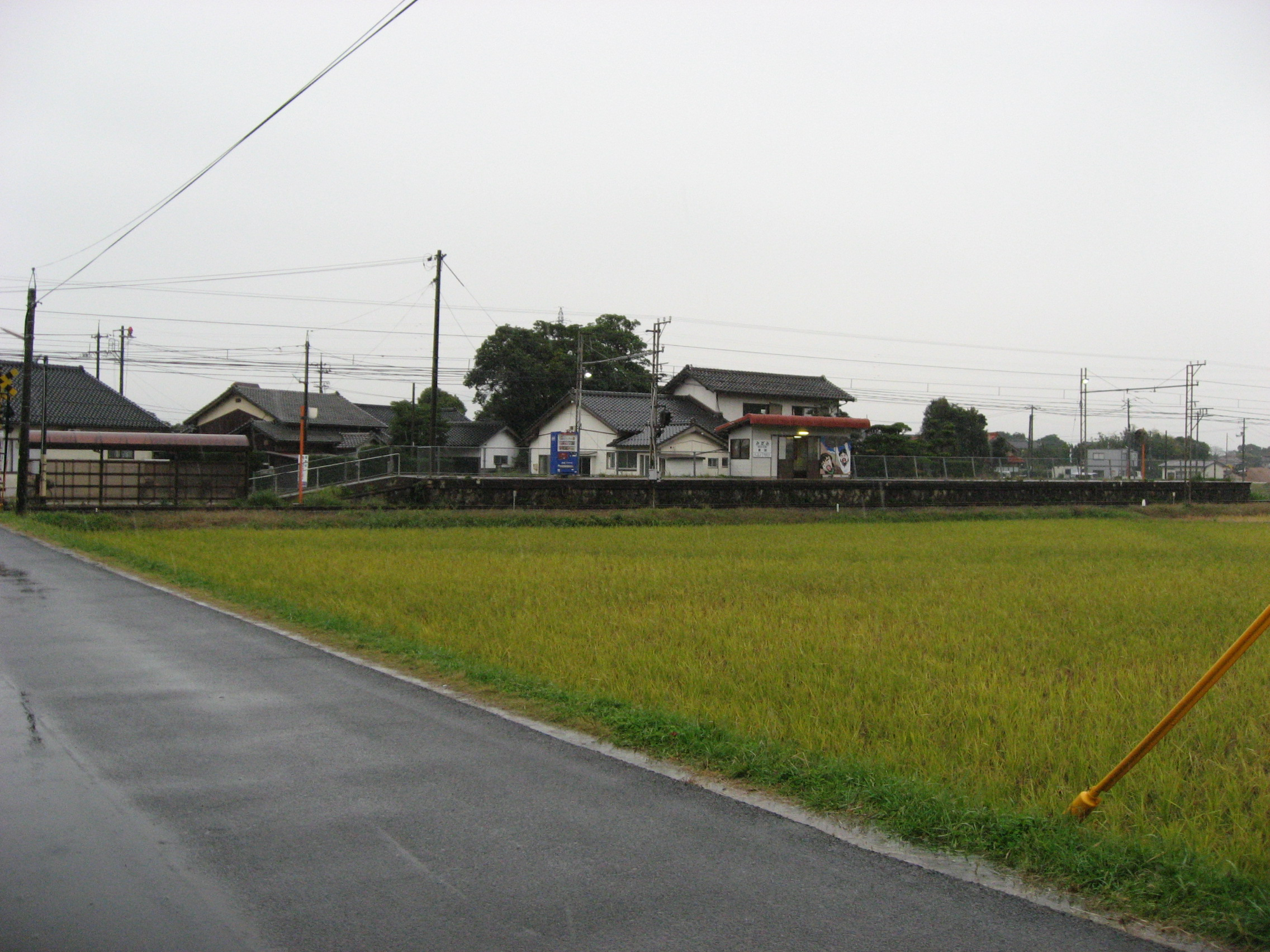 Ichibata Electric Railway Midami Station